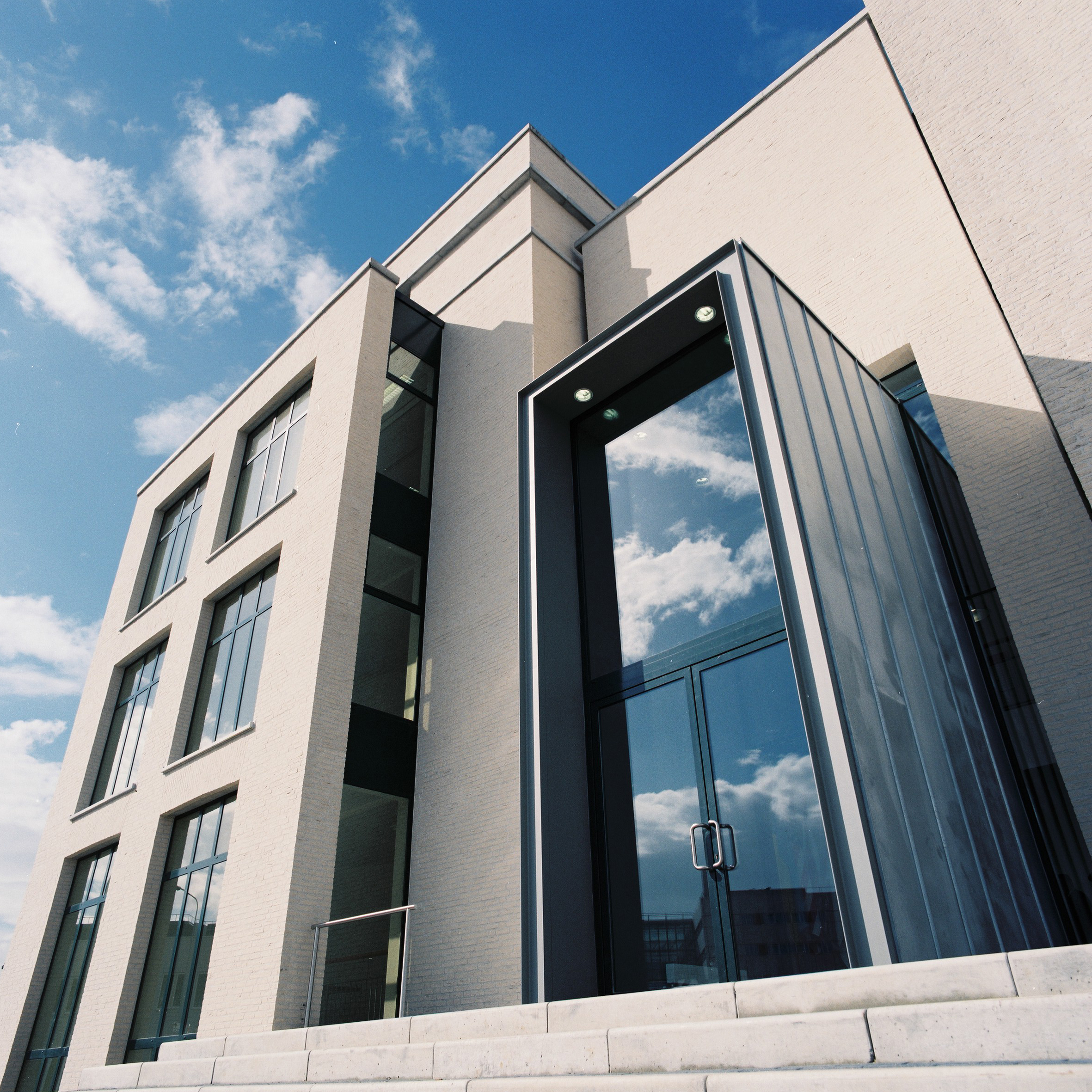 MsM building